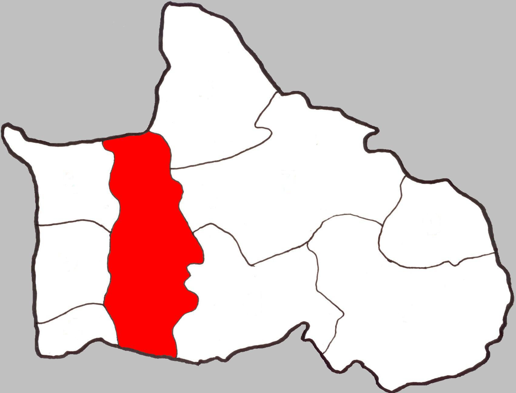 Map of Tambon Bang Krathum, Amphoe Bang Krathum, Phitsanulok Province